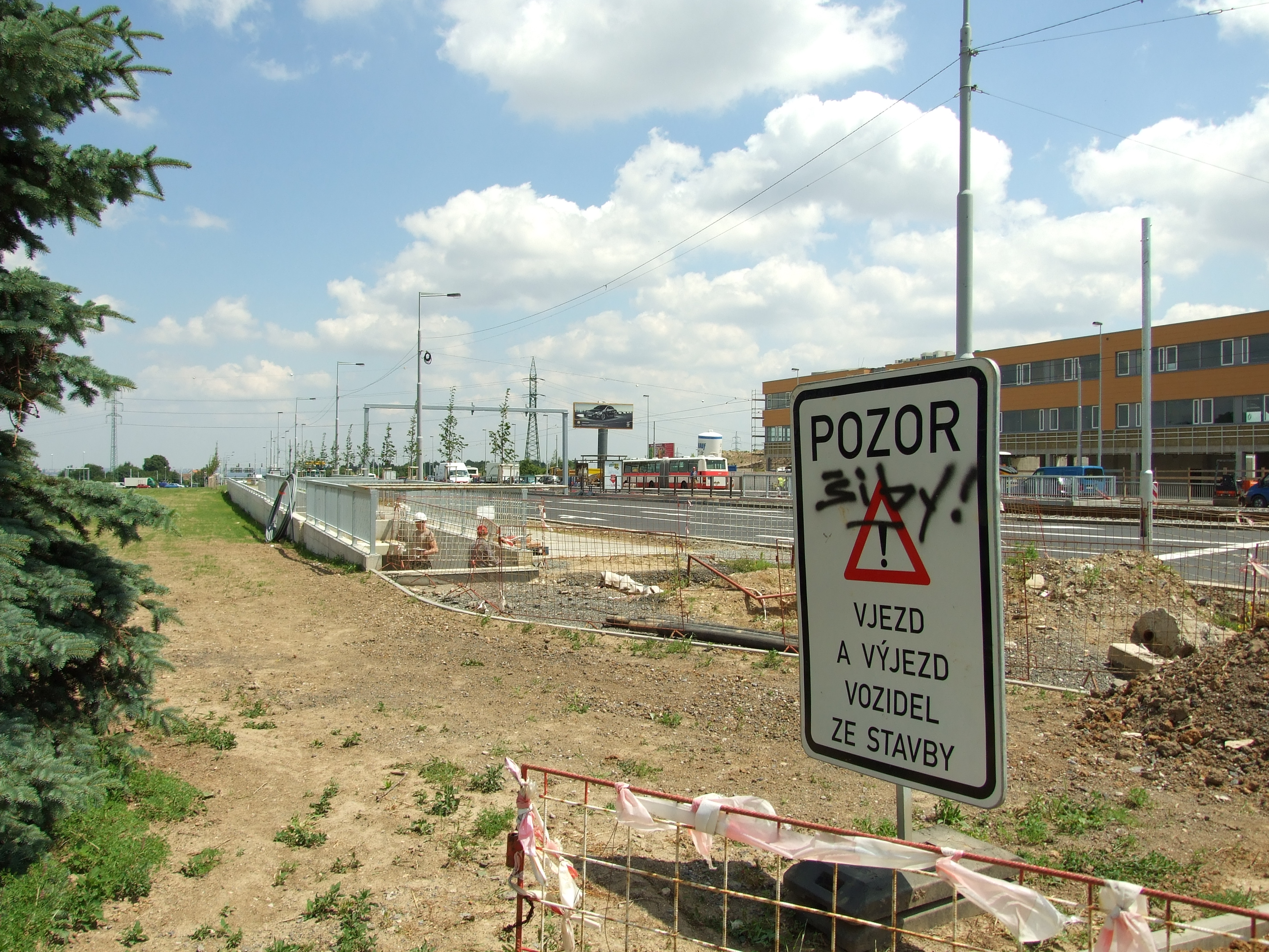 Prague-Břevnov, Czech Republic. Construction of commercial center Vypich is going on. The centre will be acompanied with a new tram station and crossing.